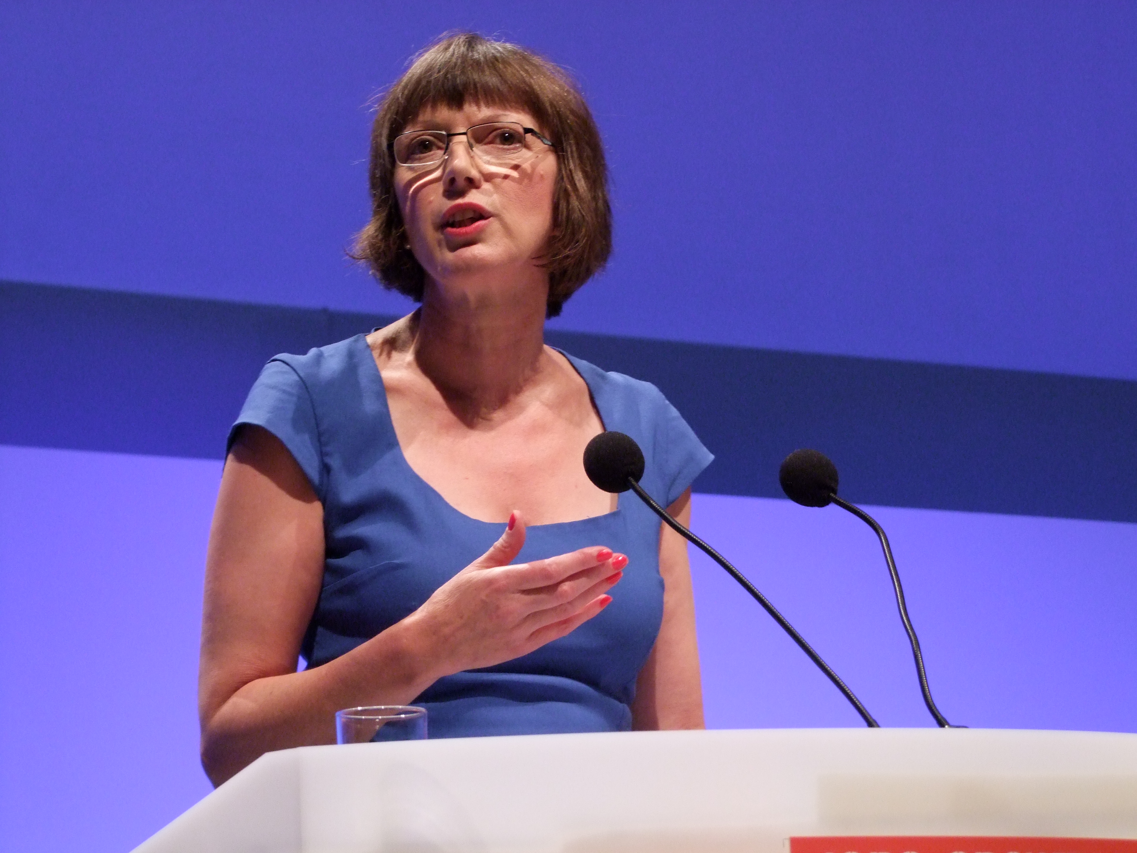 TUC General Secretary Frances O'Grady's keynote speech to TUC Congress 2013 in Bournemouth. Monday 9 September 2013.